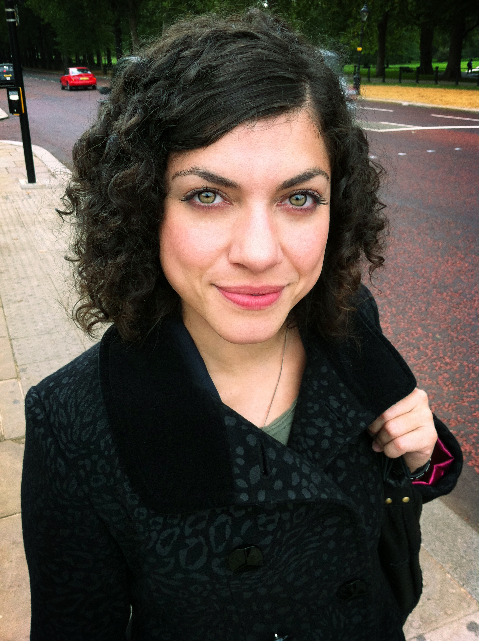 Carrie Rodriguez, London 2010